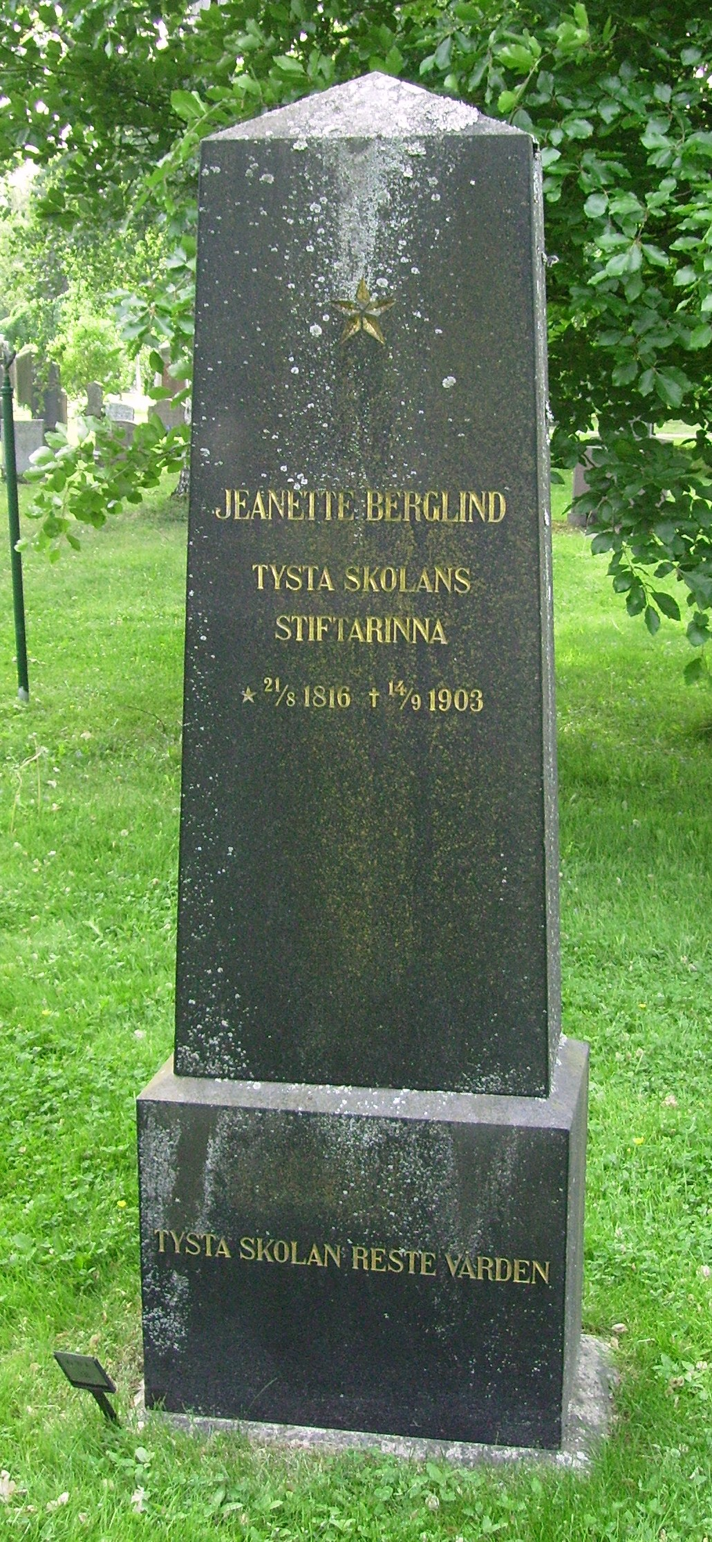 Picture of Jeanette Berglind's grave at Norra begravningsplatsen in Solna